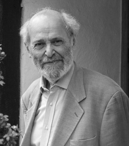 Géza Vermes (Hungarian pronunciation: [ˈɡeːzɒ ˈvɛrmɛʃ]; 22 June 1924 – 8 May 2013) was a British scholar of Jewish Hungarian origin—one who also served as a Catholic priest in his youth—and writer on religious history, particularly Jewish and Christian.